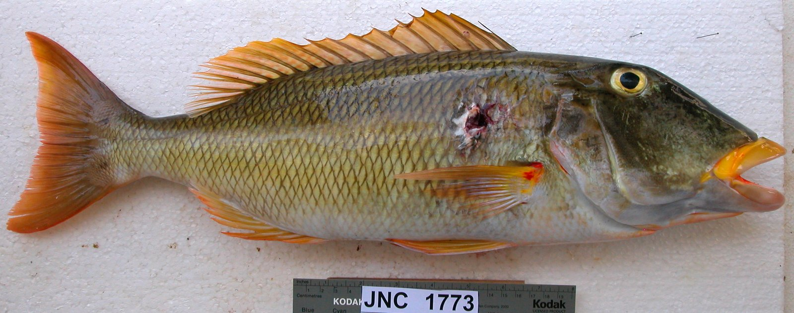 Lethrinus xanthochilus Klunzinger, 1870 from off New Caledonia. Parasitological number JNC1773. Collected off Île Amédée, off Nouméa, New Caledonia, 21 March 2006. Fork Length 530 mm, Weight 2300 g.